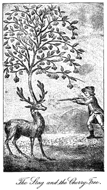 THE TRAVELS AND SURPRISING ADVENTURES OF Baron Munchausen ILLUSTRATED WITH THIRTY-SEVEN CURIOUS ENGRAVINGS FROM THE BARON'S OWN DESIGNS AND FIVE ILLUSTRATIONS By G. CRUIKSHANK By BARON MUNCHAUSEN. London: Printed for C. & G. Kearsley, Fleet Street, 1793.""